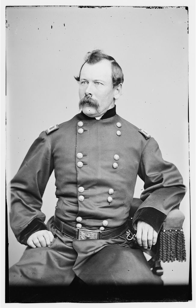 Thomas Devin.